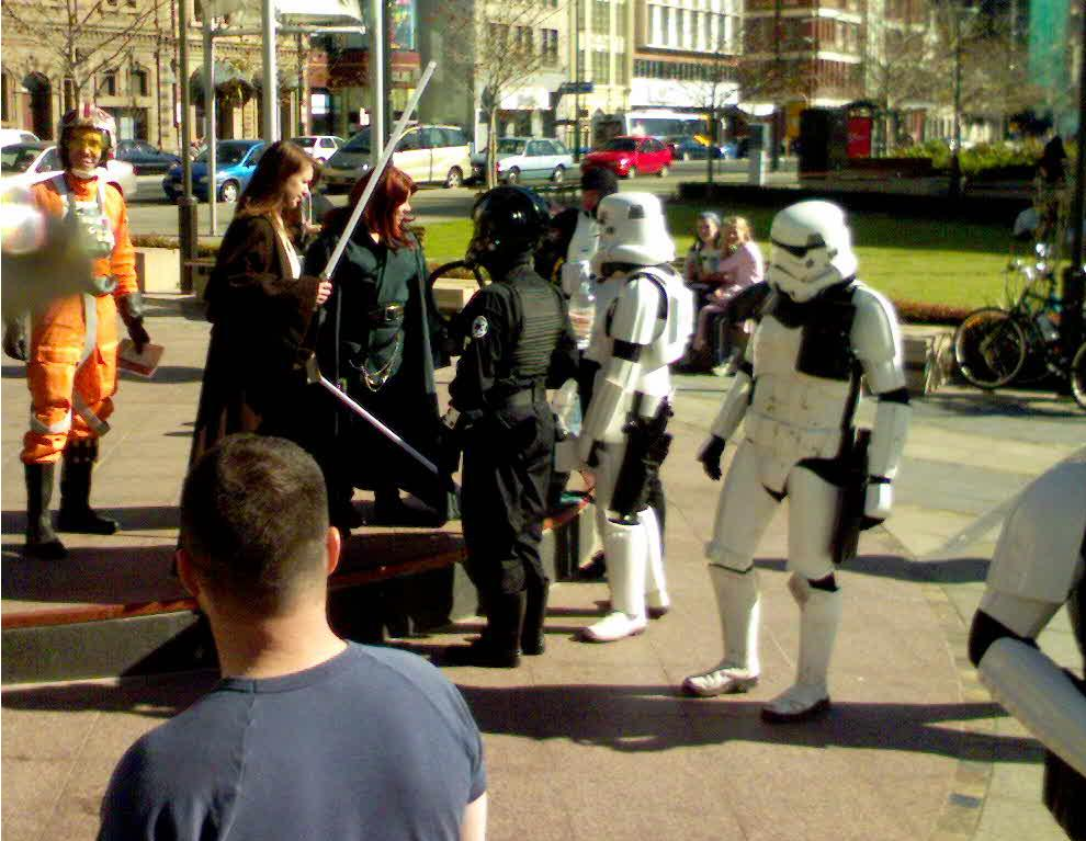 Taken August 2006 in Adelaide, the Legion were at a public function in front of and in the Adelaide Museum and were entertaining in science and environment fair in front of the museum.